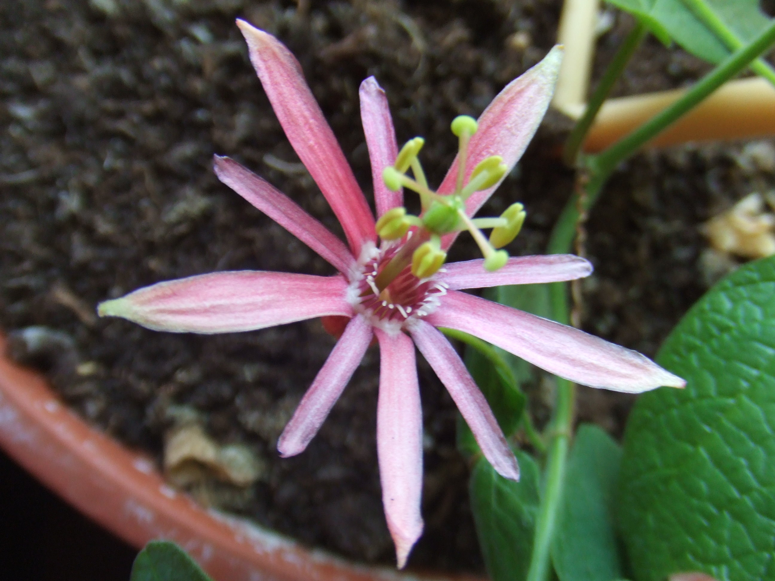 Passiflora sanguinolenta, own collection